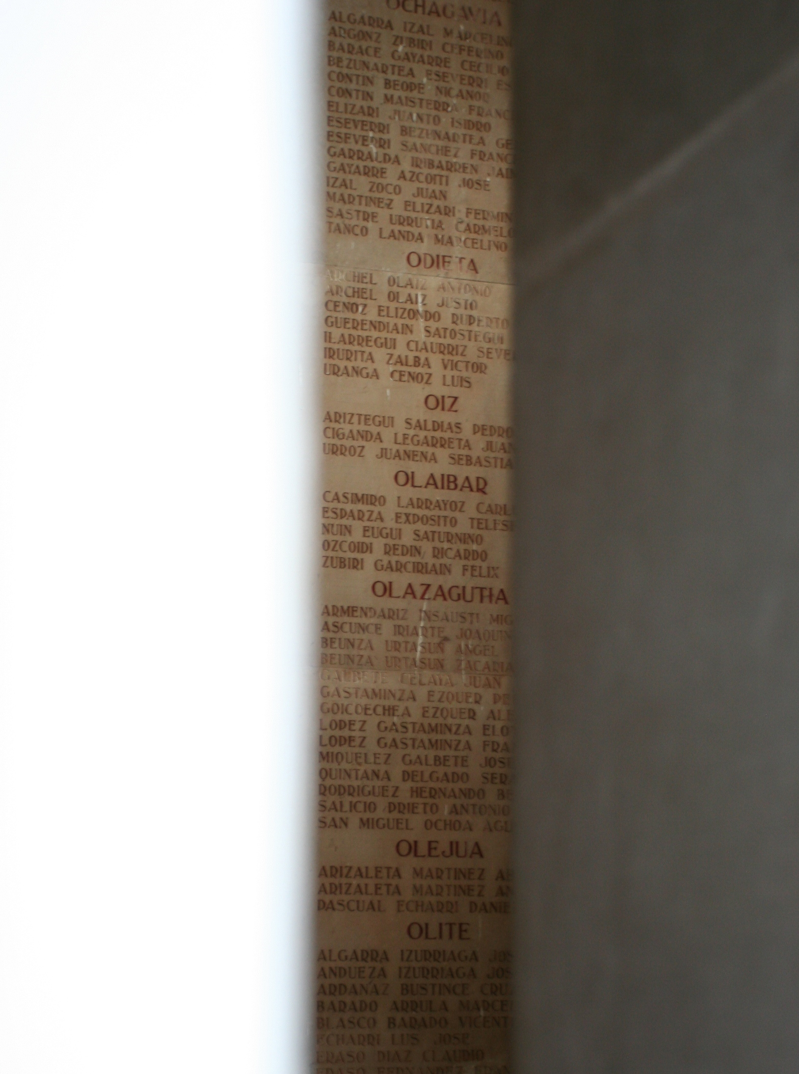 Pamplona, former Monumento a los Caídos, now serving as an exibition hall. Fragment of a list of fallen Requeté soldiers barely visible through a crevice in walls supporting a Mapamundistas exhibition